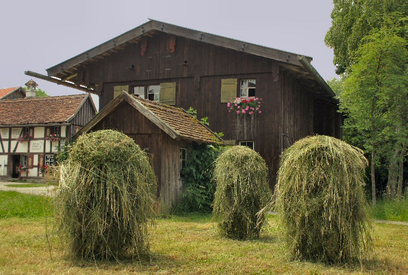 Germany. Heinzen.